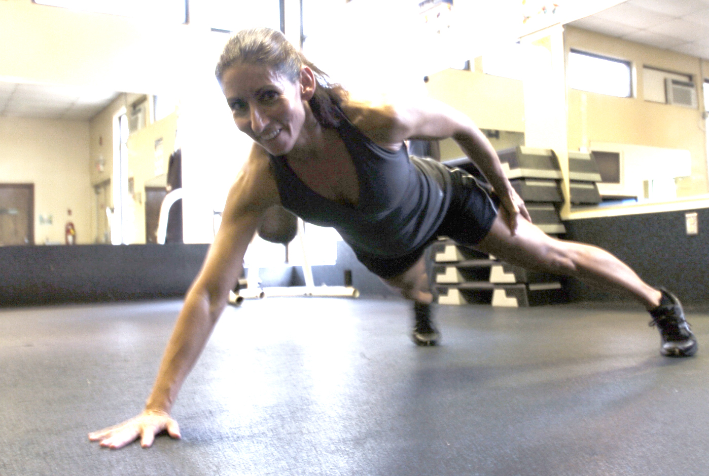 Winterhalter does a one-armed pushup during a workout at the Fort McPherson gym in preparation for an upcoming fitness competition. The one-arm pushup is one of the moves that must be incoporated into a two-minute routine. Other moves include the front split, high kicks, straddle hold and L-sit. Competitors perform the routine in costume to music based on a certain theme. For the upcoming fall classic, Winterhalter's theme will be Speed Racer.